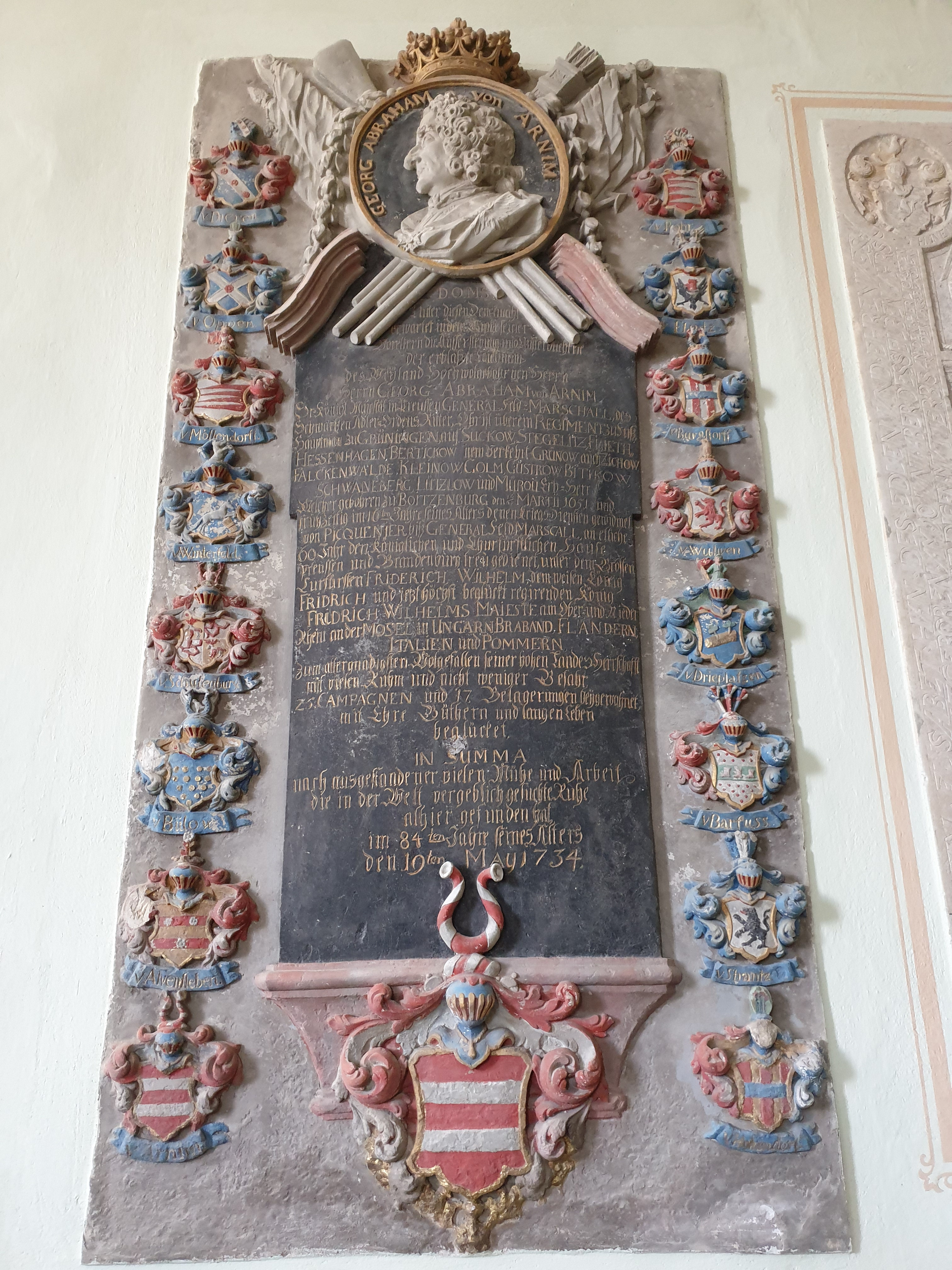 Memorial for Georg Abraham von Arnim (1651 - 1734) in St. Marien auf dem Berge, Boitzenburg, Germany. Text: "Hinter diesen Denckmahl erwartet in dem Licht seiner Voreltern die Auferstehung und Unsterblichkeit der erblaßte Leichnam des Weyland (?) hochwolgebohrnen Herrn Herrn Georg Abraham von Arnim Sr königl Majestät in Preußen Generalfeldmarschall des schwarzen Adler-Ordens, Ritter, Obrin über ein Regiment zu Fuß, Hauptmann zu Grüningen, auf Suckow, Stegelitz, Flieth, Falsckenwalde, Kleinow, Golm, Güstrow, Bitikow, Schwaneberg, Lützlow und Mürou. Erb-Herr welcher gebohren zu Boitzenburg den 16 Martii 1651 und frühzeitig im 16ten Jahre seines Alters denen Kriegsdiensten gewidment von Picquenier biß Generalfeldmarschall, an etliche 60 Jahre den königlichen und Khurfürstlichen Hause Preussen und Brandenburg frei gedient, unter dene Grossen Kurfürsten Friderich Wilhelm, dem weisen König Fridrich und jetzt höchst beglückt regierenden König Fridrich Wilhelms Majetse am Ober- und Nieder Rhein an der Mosel, in Ungarn, Braband, Flandern, Italien und Pommern. Zum allergnädigsten Wohlgefallen seiner hohen Landesherrschaft mit vielen Ruhm und nicht weniger Gefahr, 25 Campagnen und 17 Belagerungen beygewohnet, mit Ehre, Güthern und langen Leben beglücket. In SUMMA nach ausgestandener vielen Mühe und Arbeit die in der Welt vergeblich gesuchte Ruhe alhier gefunden hat, im 84ten Jahre seines Alters den 19ten May 1734"